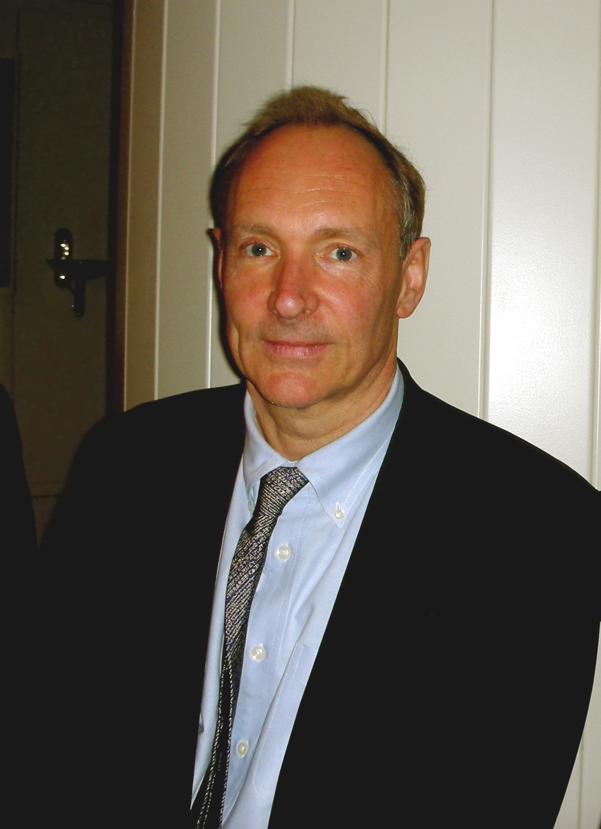 Tim Berners-Lee at the Forum of Internet Governance.